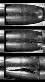 Frangible bullet stress test to measure the precise amount of stress needed to break it apart.